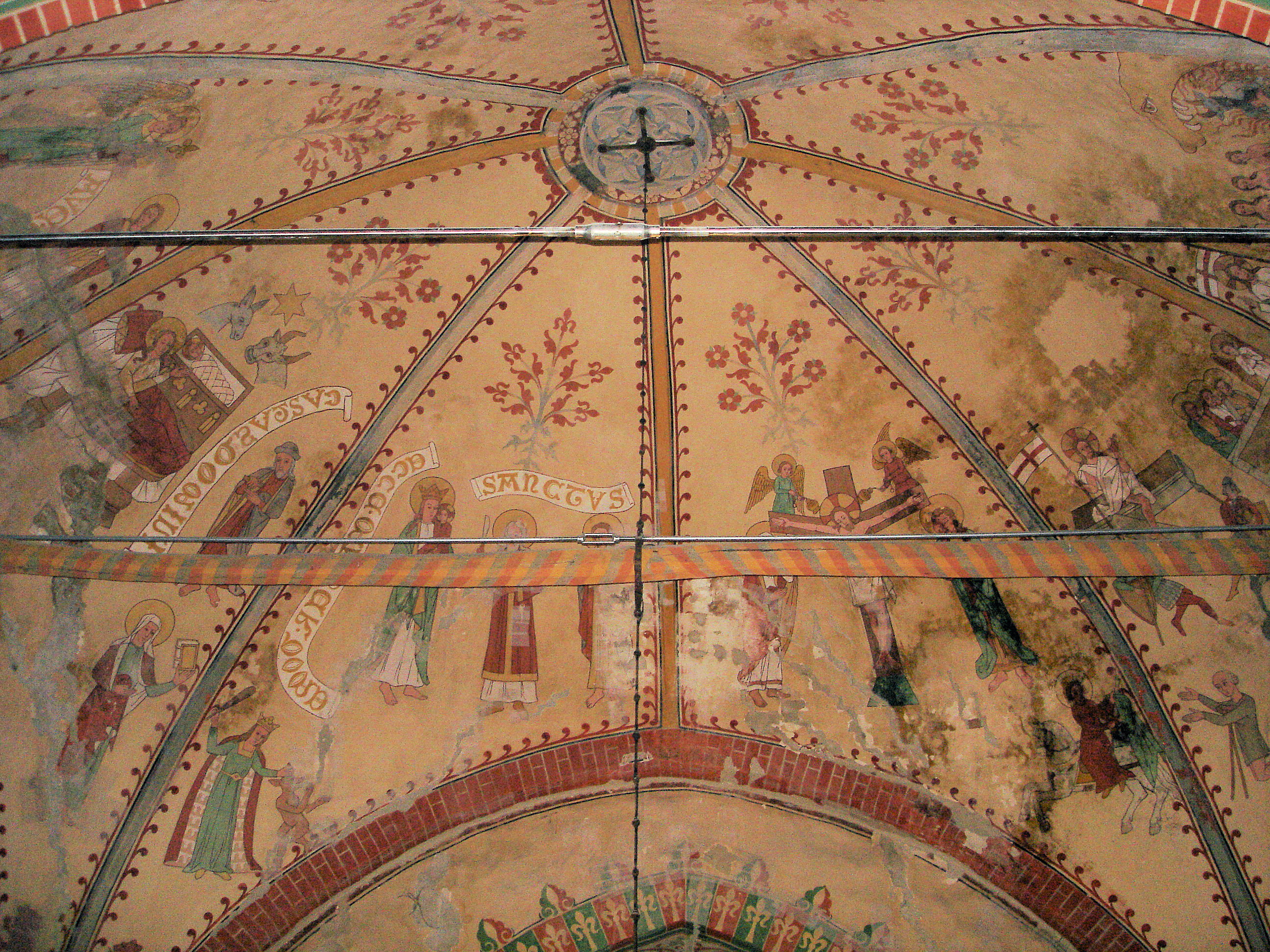 Fresco in the church in Petschow, Mecklenburg, Germany